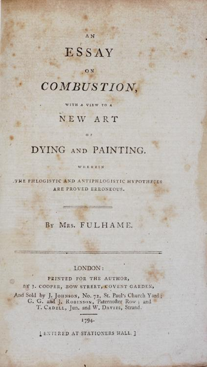 Title Page from An essay on combustion : with a view to a new art of dying and painting. Wherein the phlogistic and antiphlogistic hypotheses are proven erroneous by Mrs. Fulhame. London : Printed for the author, by J. Cooper, 1794.